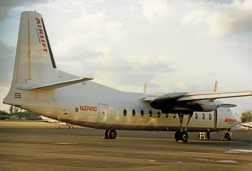 Fairchild FH-227C N374RD of Airlift International at Fort Lauderdale Airport, Florida, in 1989